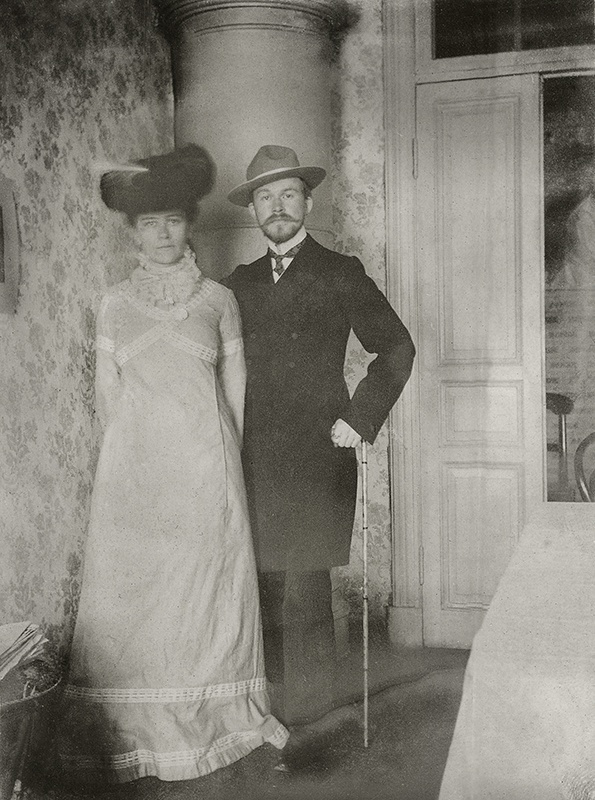 Boris Mikhaylovich Kustodiev with wife Julia. 1903.